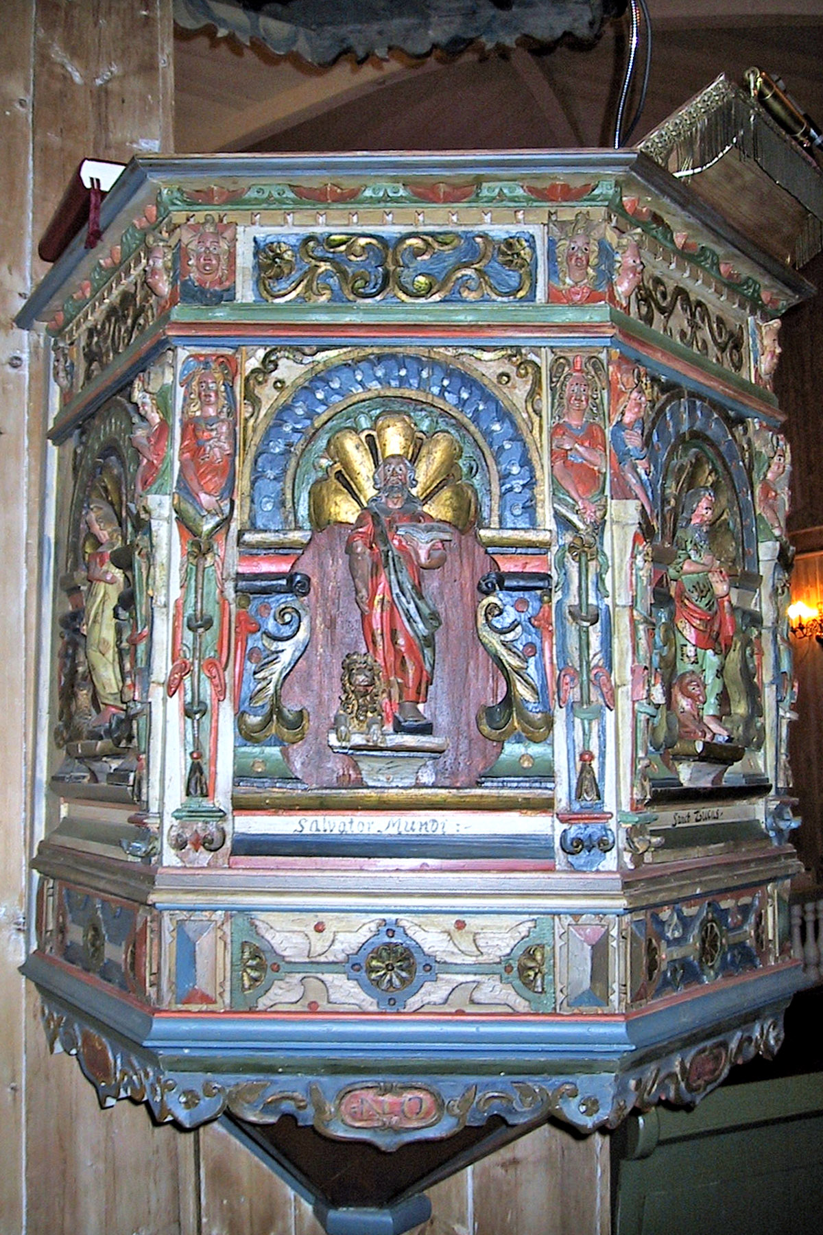 Pulpit, detail, in Brandval church by woodcarver Lauritz Lauritzen from 1651, painted by Thomas Blix in 1728.